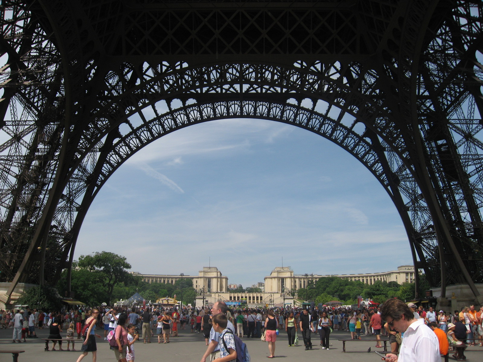 Palais de Chaillot seen through Eiffel Tower in Paris